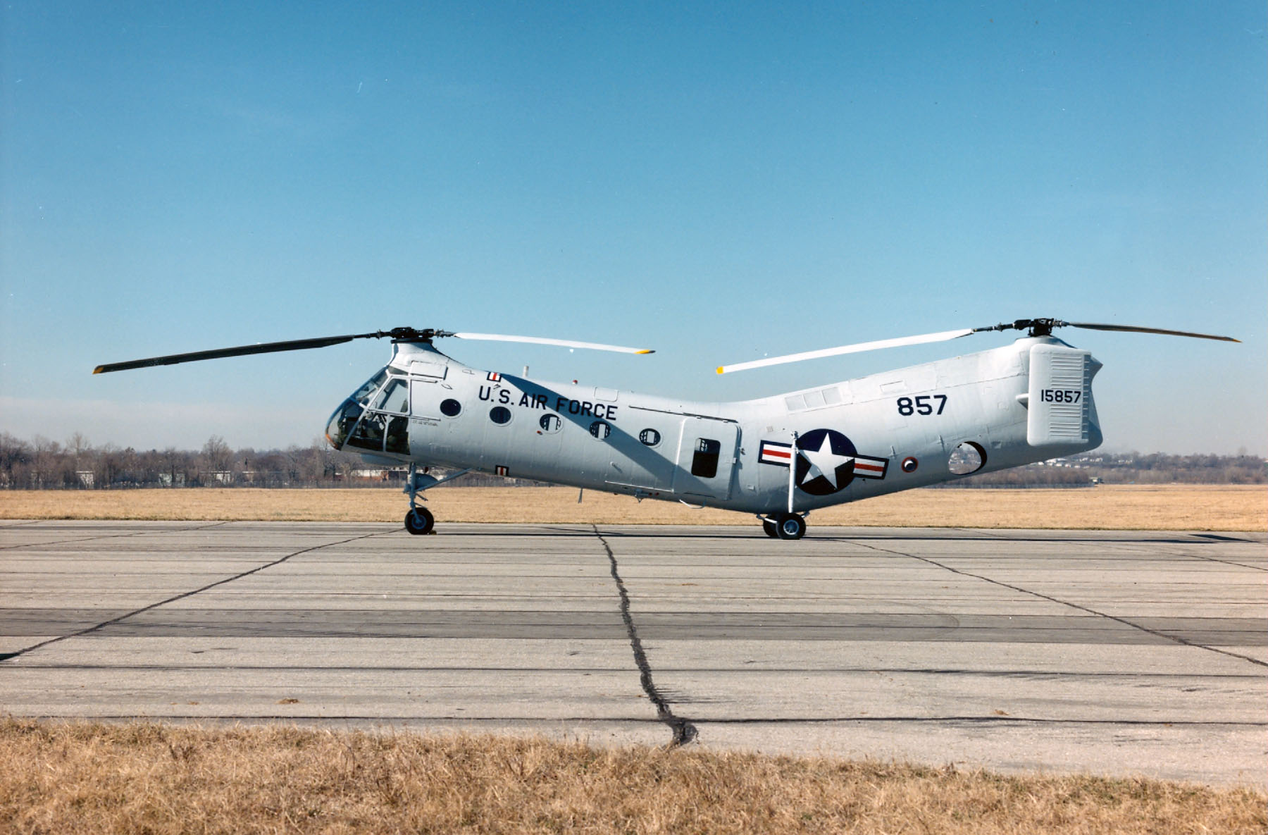 DAYTON, Ohio -- Vertol CH-21B Workhorse at the National Museum of the United States Air Force. (U.S. Air Force photo)